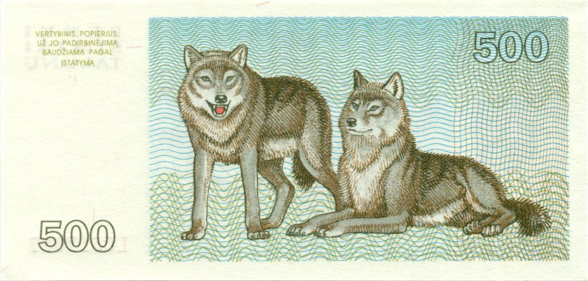 500 talonas "provisional money" Lithuania, 1991